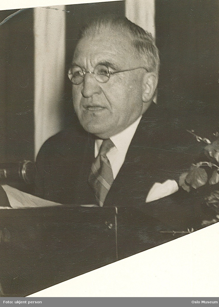 Norwegian dentist and professor Immanuel Ottesen (1874–1955). Photo around 1940.